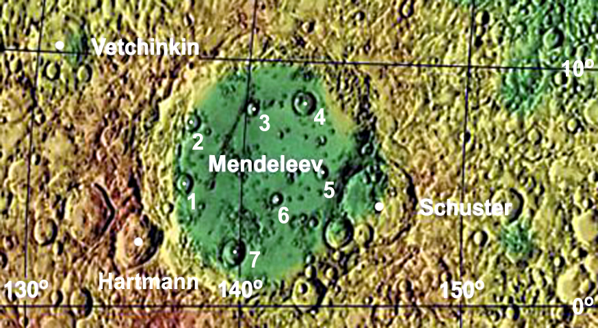 Crater Mendeleev, Schuster, Hartmann and smaller crater formations: 1 — Moissan, 2 — Bergman, 3 — Richards, 4 — Fischer, 5 — Harden, 6 — Benedict, 7 — Mendeleev P